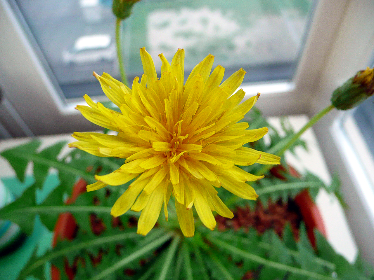 the flower head of a Taraxacum japonicum Koidz. There are few Florets of a Taraxacum japonicum than a "Taraxacum officinale".